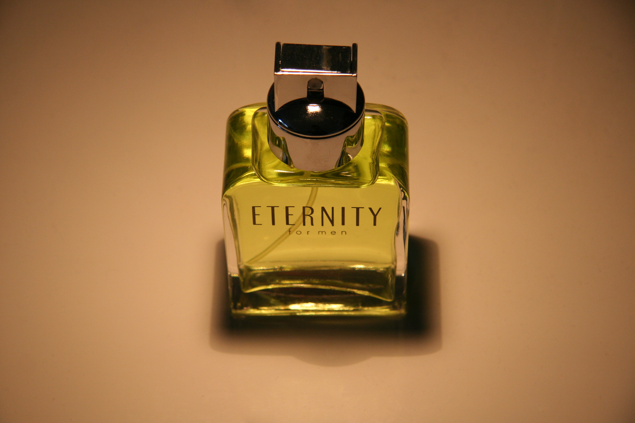 Calvin Klein Eternity perfume for Men